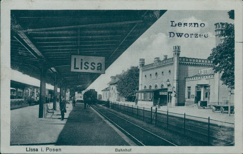 Old Railstation in Leszno